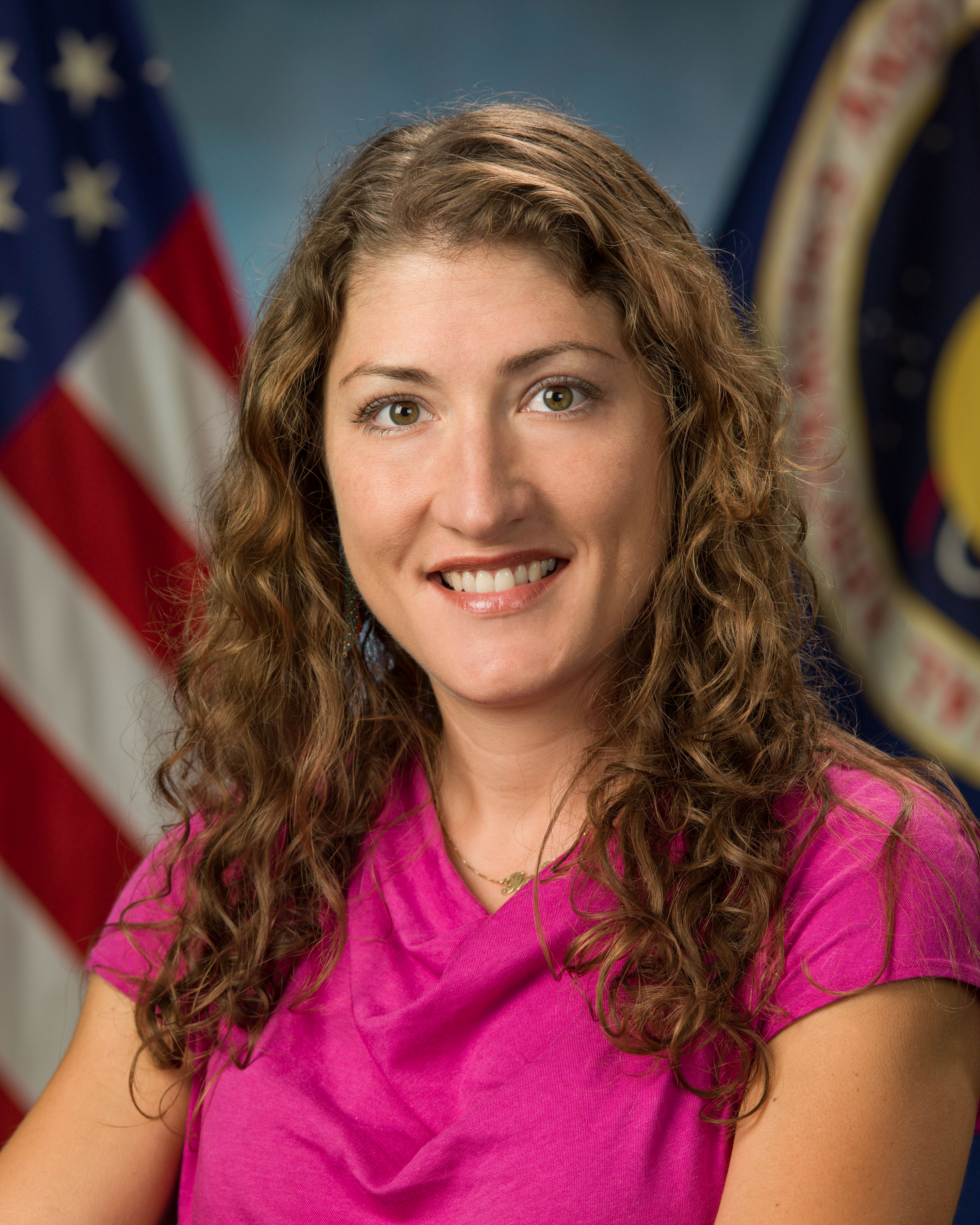 NASA Candidate Christina M. Hammock